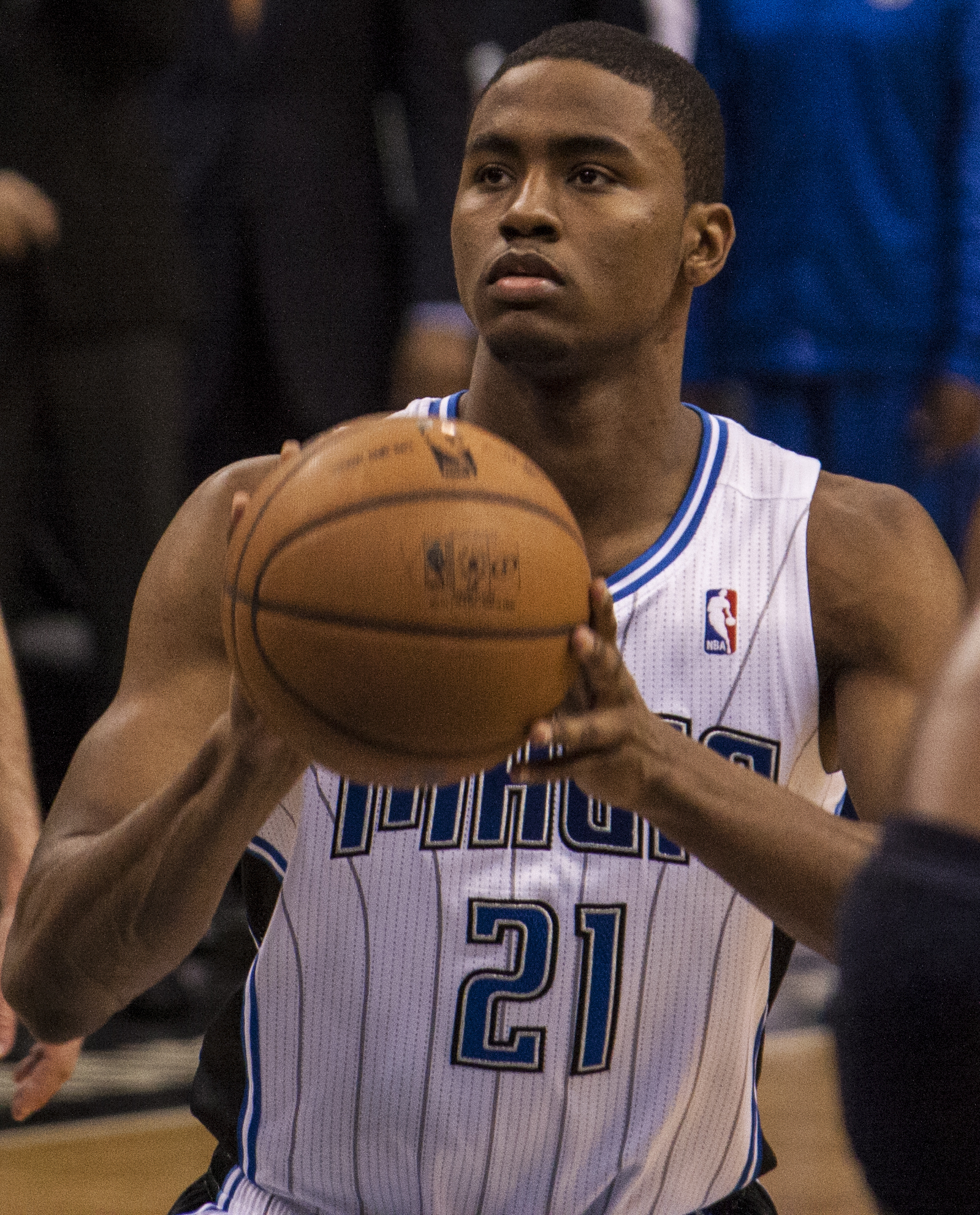 Maurice Harkless of the Orlando Magic